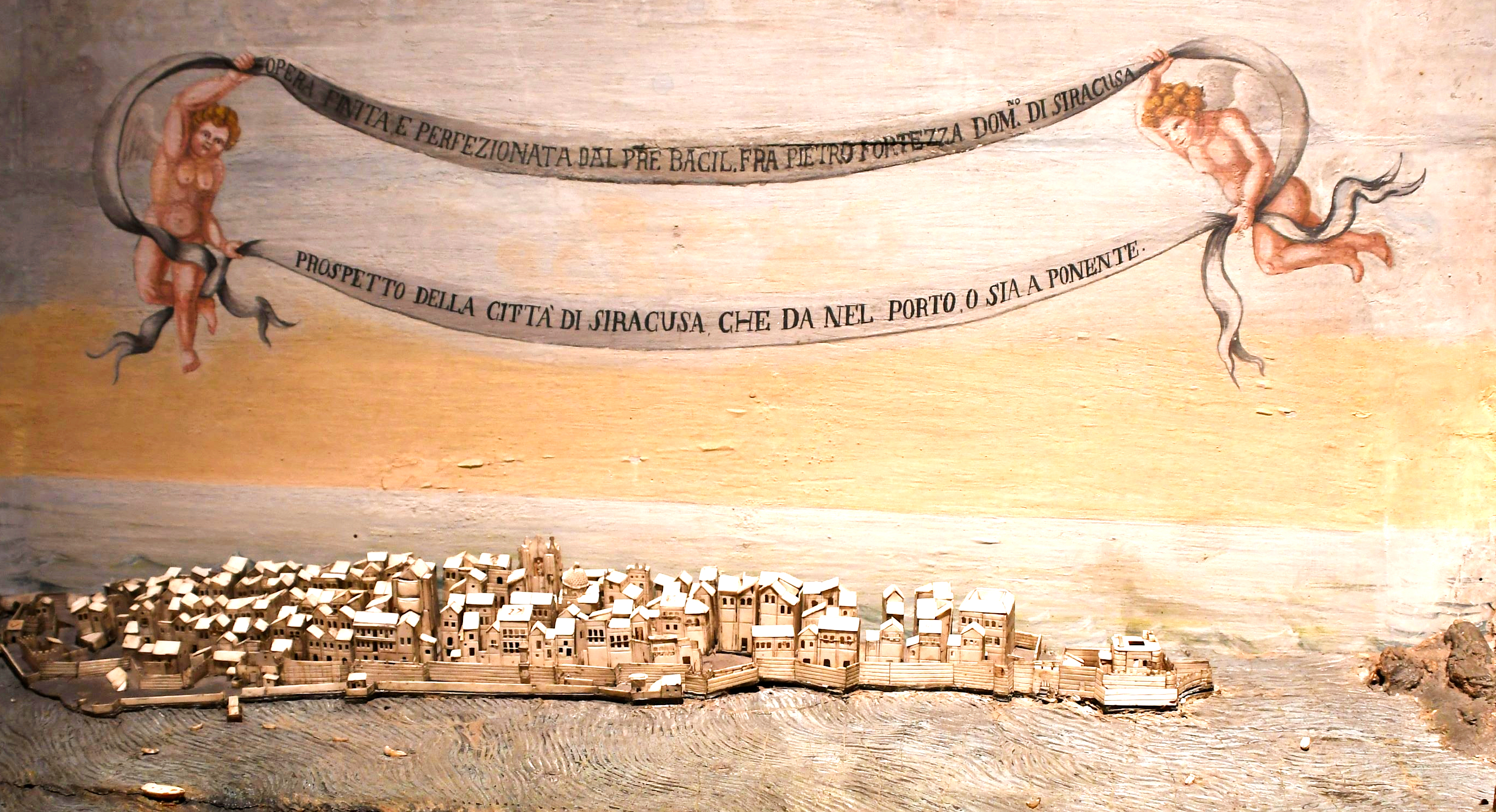 Galleria regionale Bellomo (Syracuse)